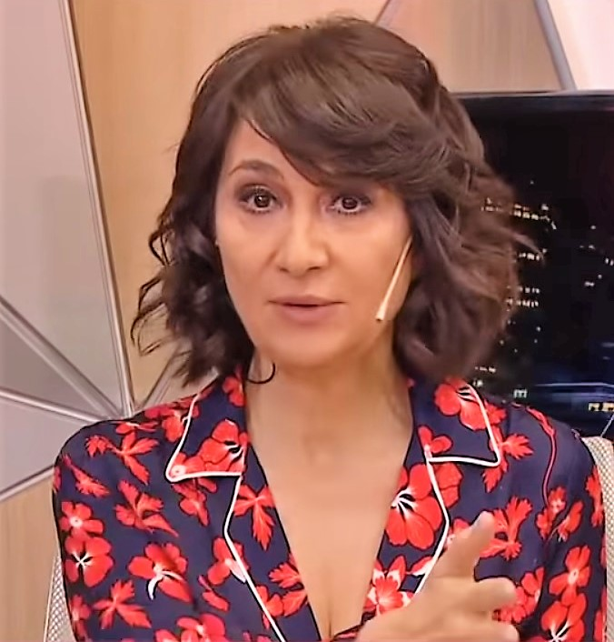 Argentine journalist María Laura Santillán discusses the Alberto Fernández appearance on Telenoche.